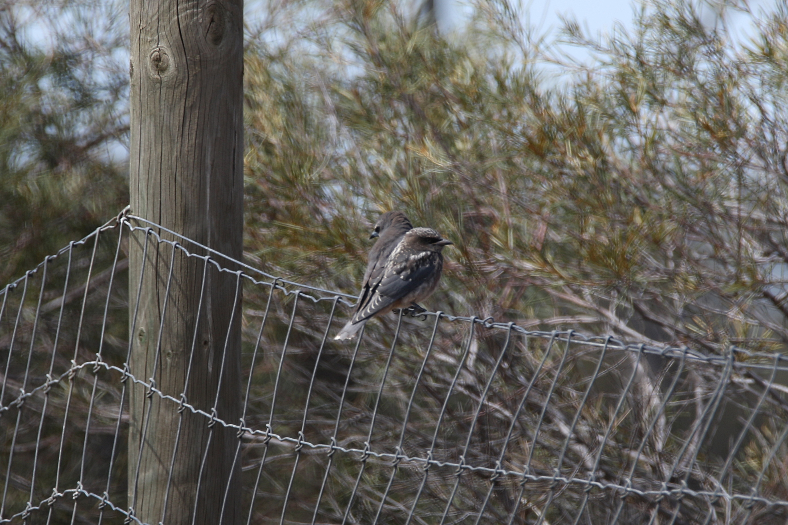 Artamus superciliosus (Gould, 1837), White-browed Woodwallow, immature, Wyperfeld National Park, VIC, 24 January 2017